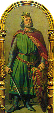 Sancho VII of Navarre